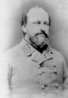 Alexander Robert Lawton, Confederate States Army Brigadier General from